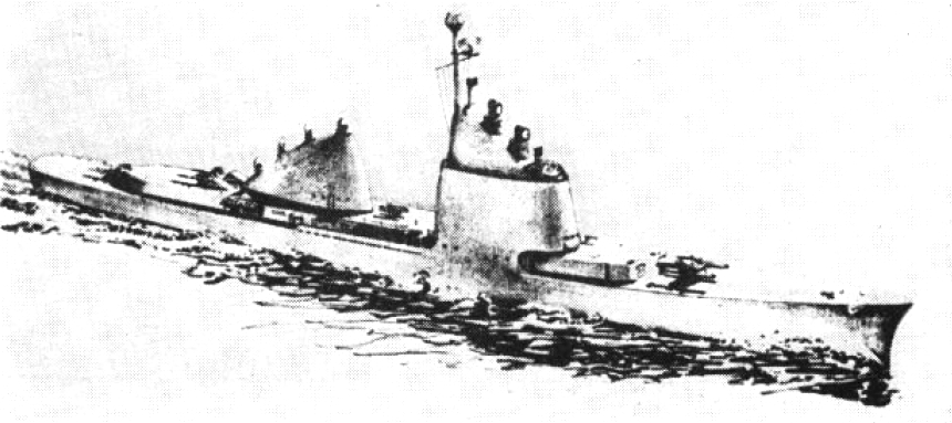 Artist's conception of a new proposed class of nuclear-powered cruisers for the U.S. Navy in mid-1956. The only ship vaguely resembling this drawing was USS Long Beach (CGN-9) which was ordered on 15 October 1956.